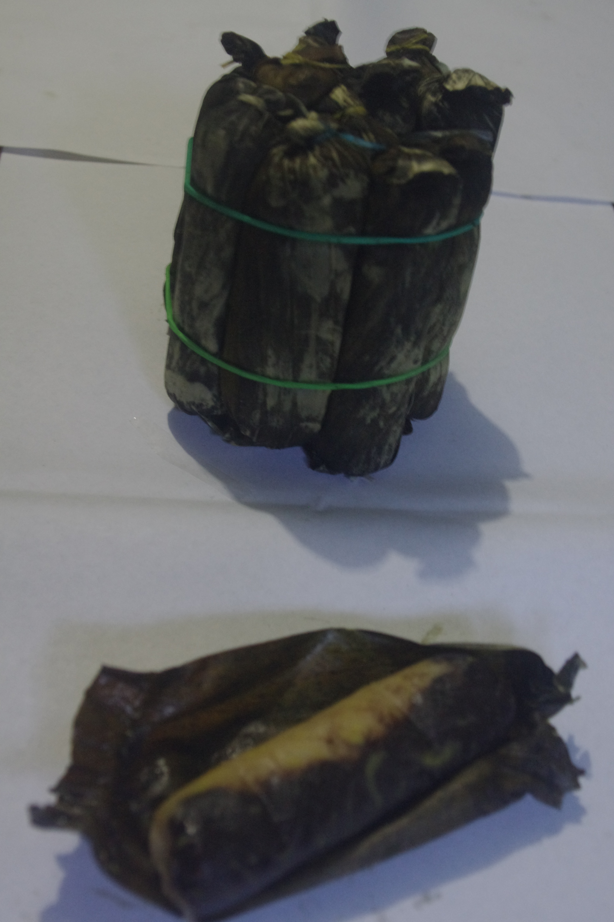 A moron is a variety of suman, a Filipino delicacy made from glutinous rice, that is usually mixed with chocolate.